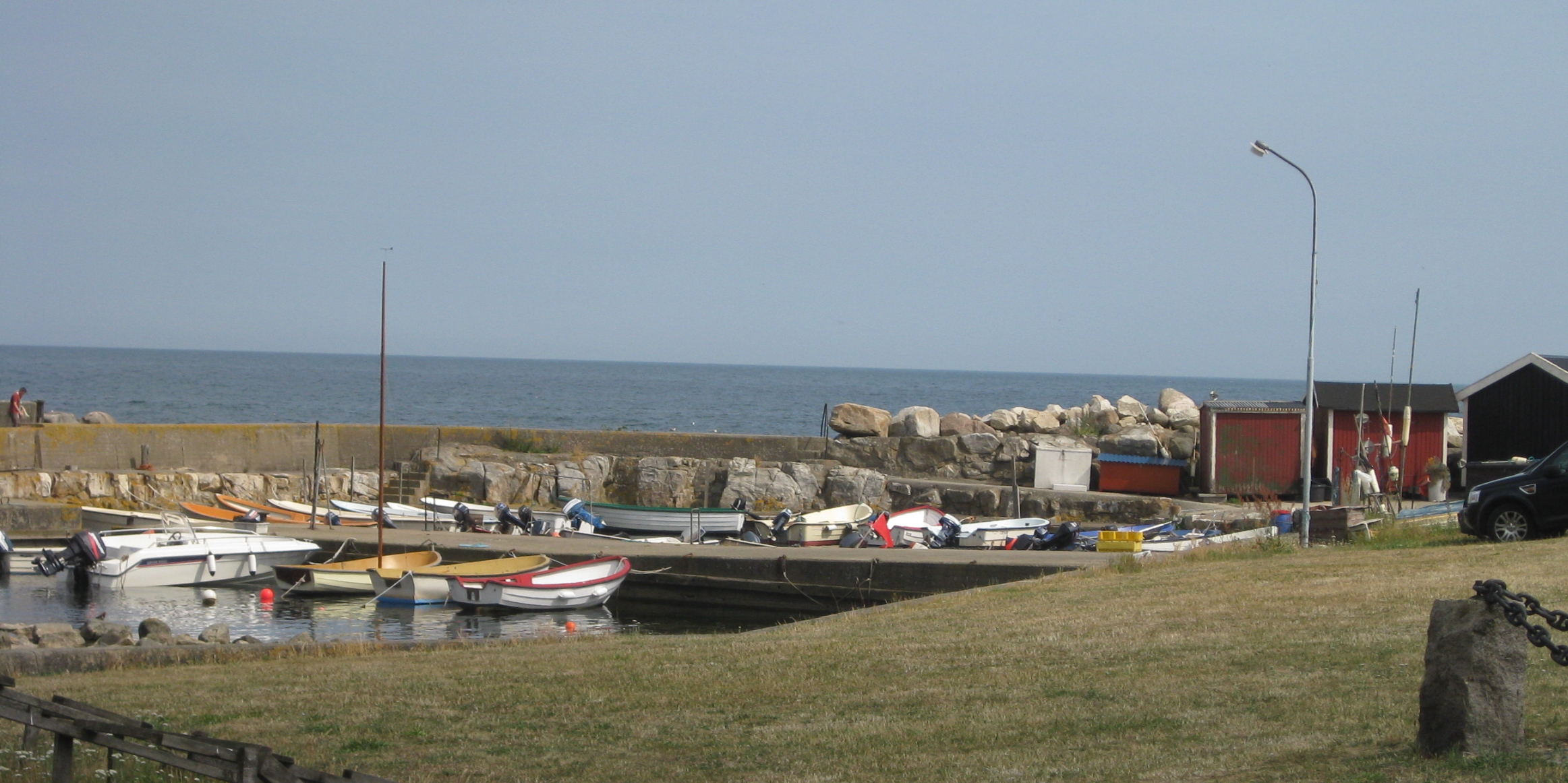 Small craft section of the harbour at Brantevik in Skåne, Sweden